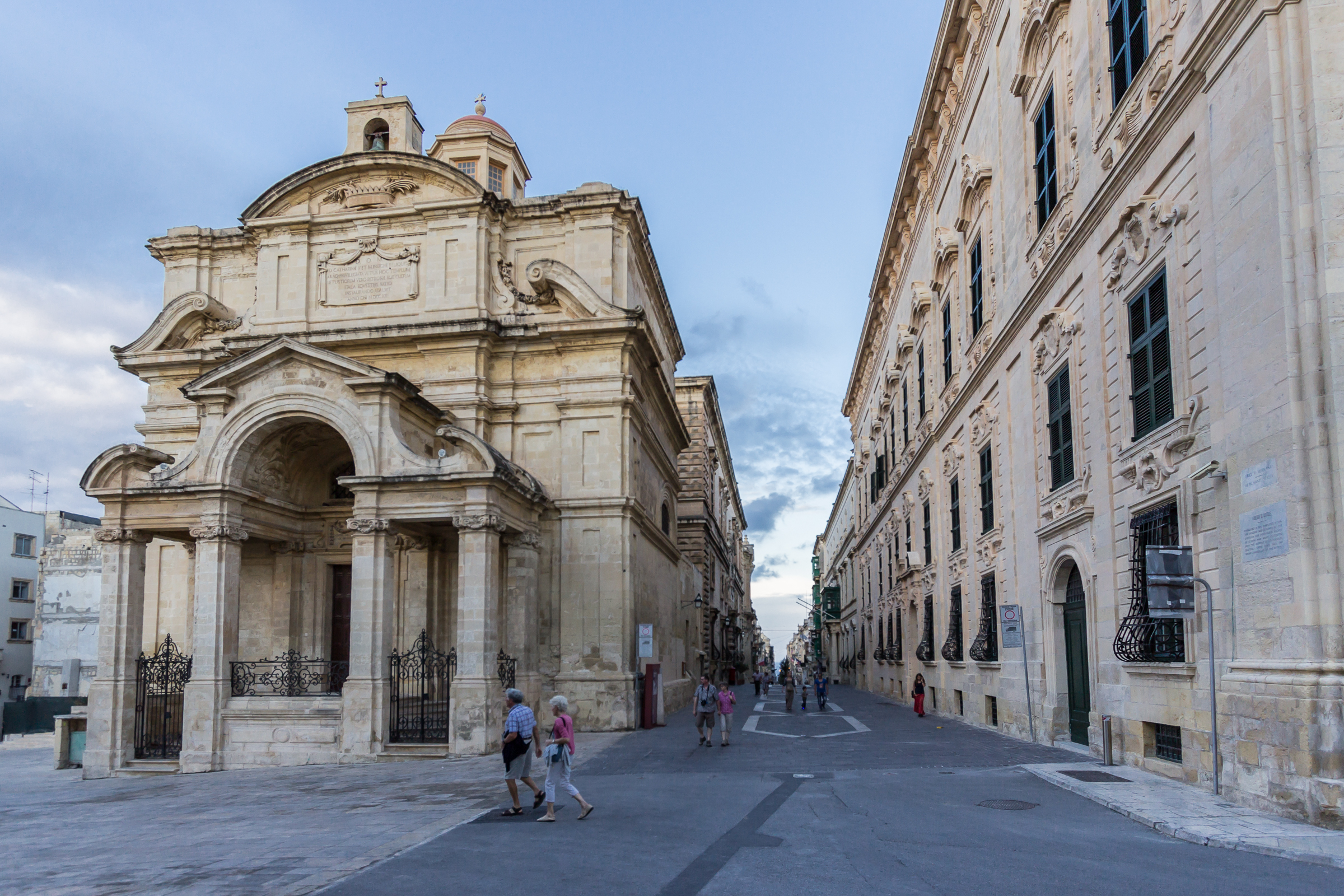 Church of St. Catherine of Italy and the side facade of Auberge de Castille in Valletta, Malta